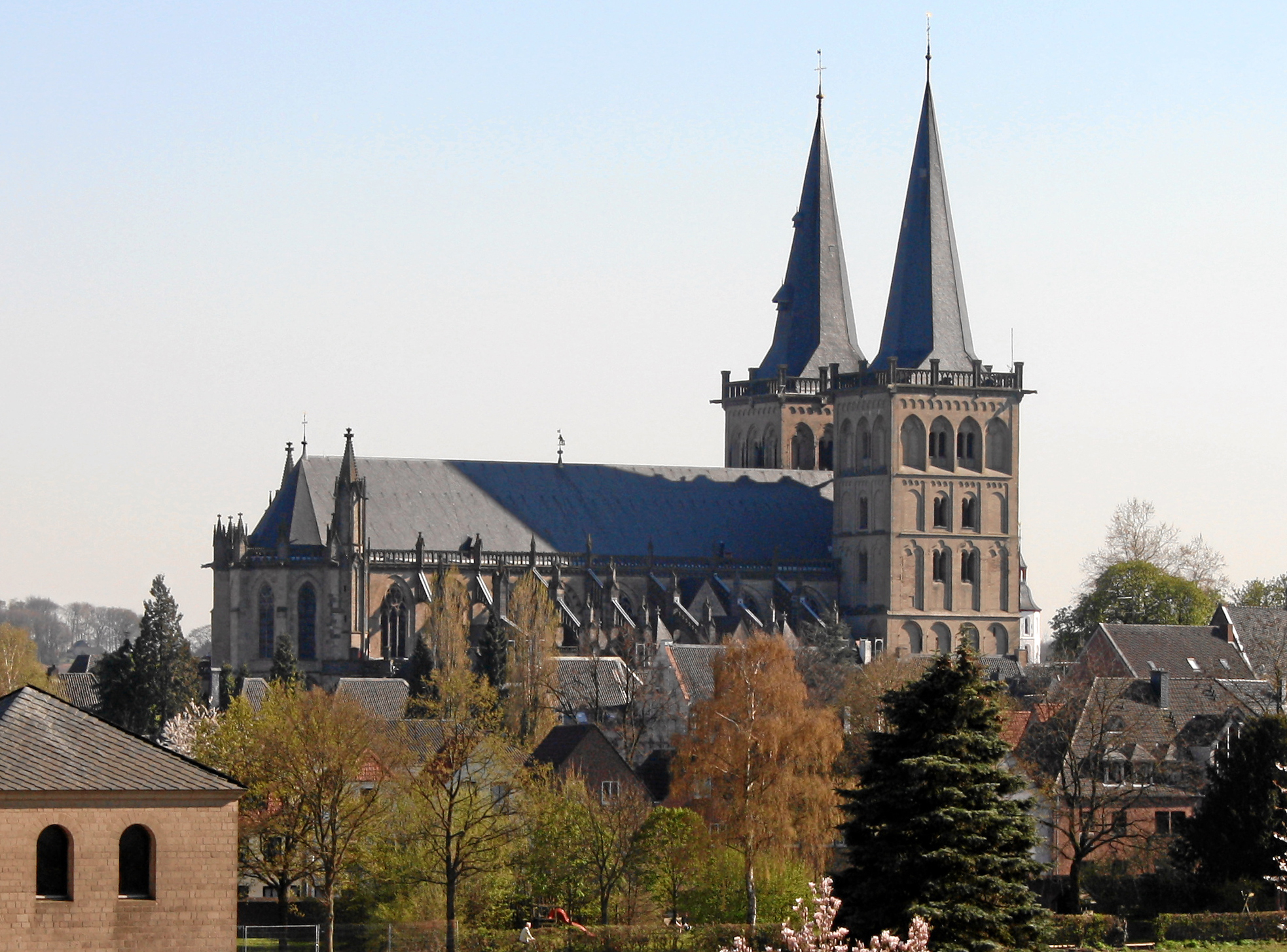 Xanten, Germany. Catholic church St. Viktor, exterior view from North.